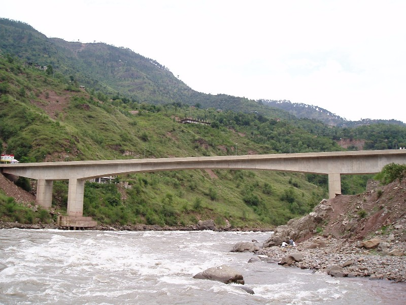 View of Pakistani Controlled Kashmir from the River Bank